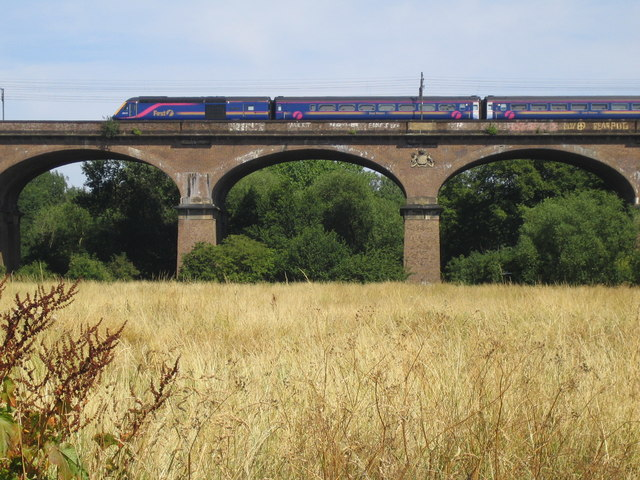 Hanwell: Wharncliffe Viaduct This classic Brunel-designed viaduct was built in 1838 to take the Great Western Railway over the valley of the River Brent. Lord Wharncliffe was chairman of the Great Western Railway and his coat of arms is visible on the right-hand pier in the photo. A westbound First Great Western express is heading out from Paddington. Further info is available from here